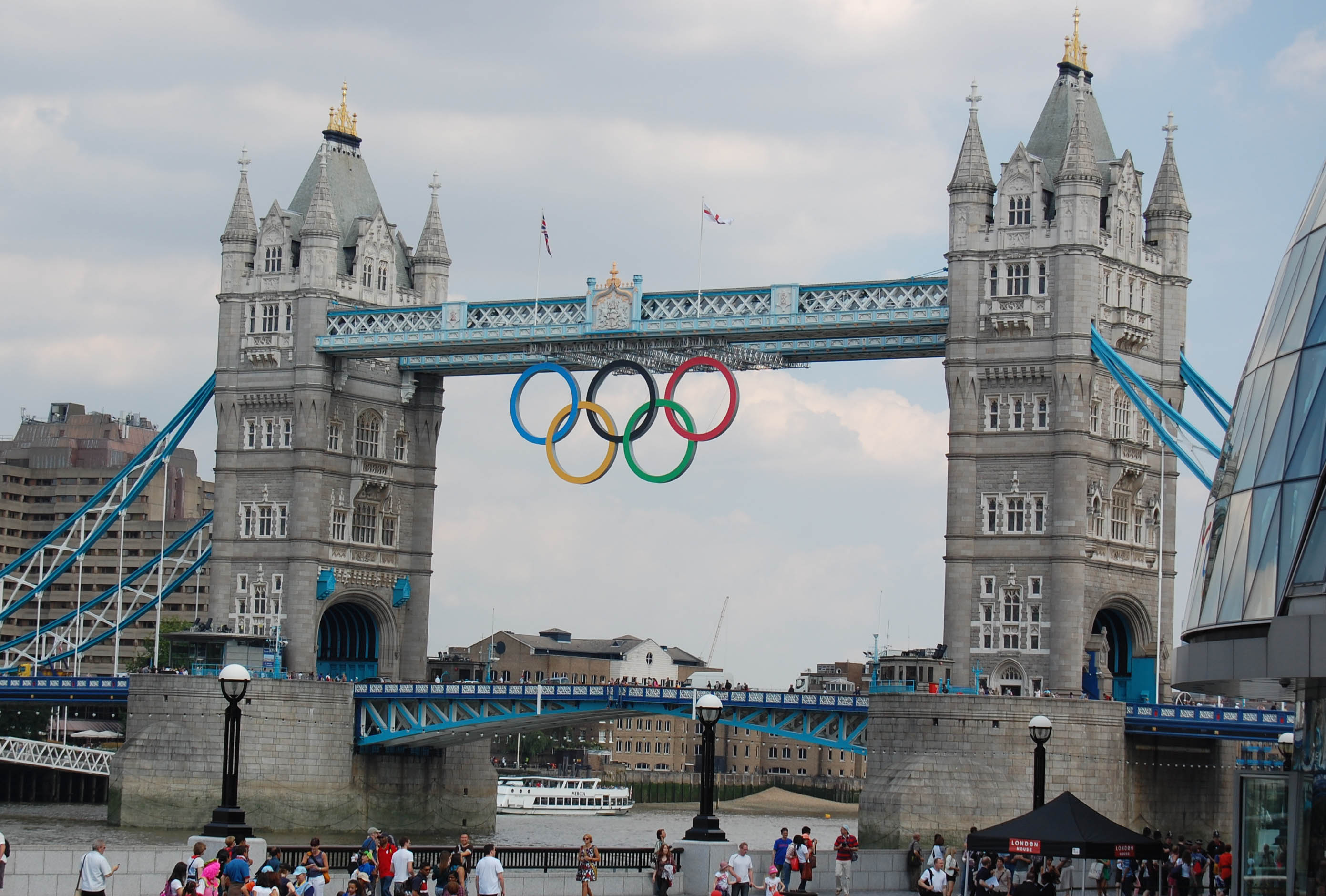 If I hadn't taken a picture of this I'd regret it though.